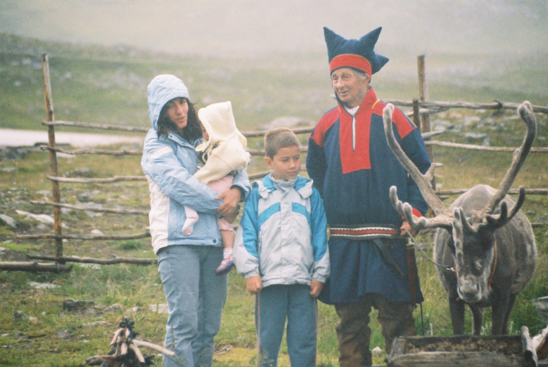 Sami people, one with a four winds hat, and a reindeer.